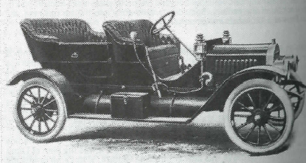 1910 Lambert model 36 touring automobile